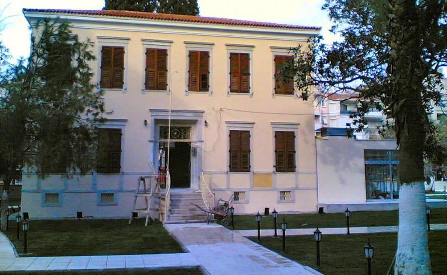 en: Latife Hanım House in Karşıyaka, İzmir, Turkey